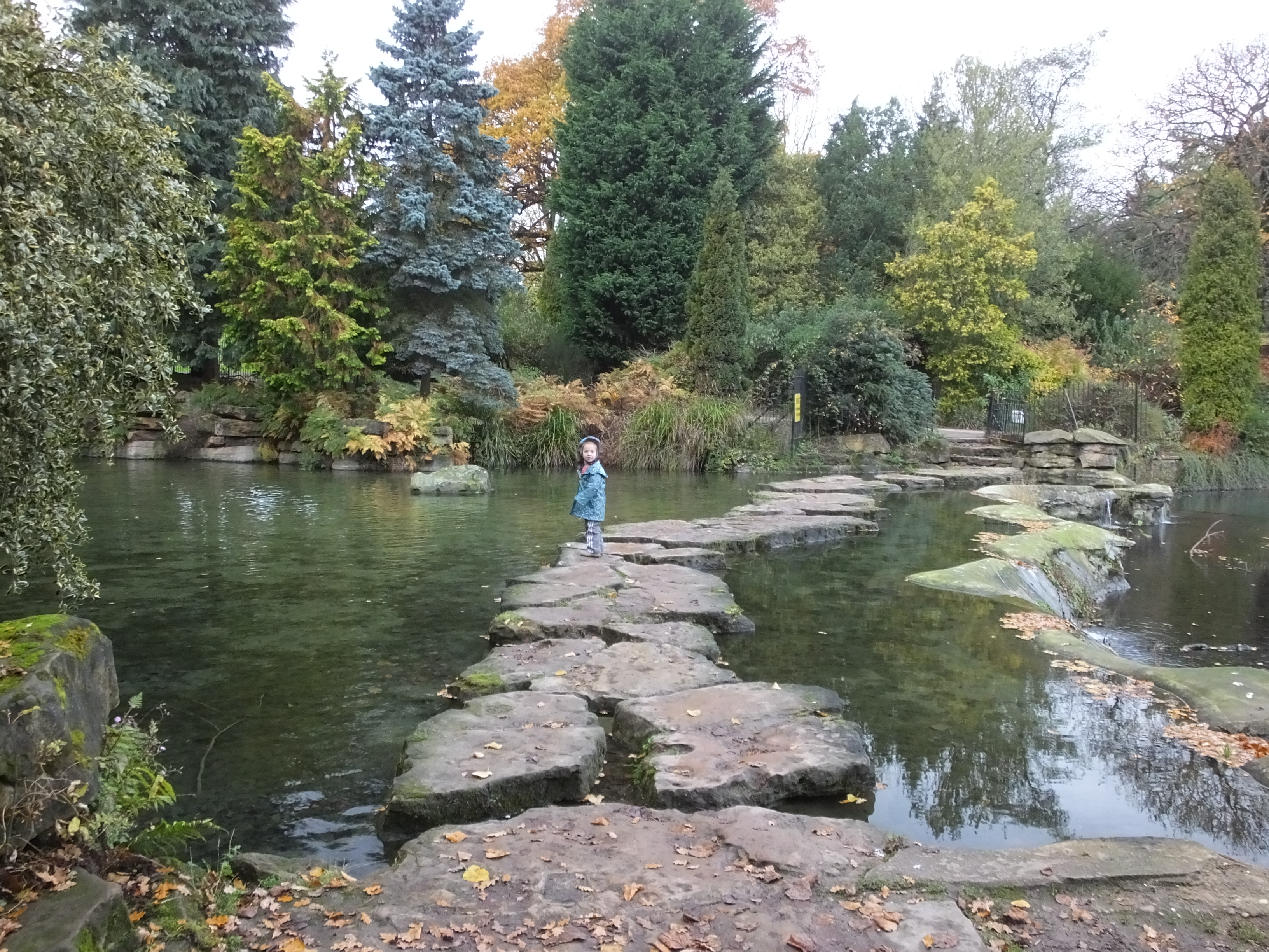 Highfields Park, Nottingham is Grade II listed Park providing 121 acres (49 ha) of public space, in the west of Nottingham, England. It is owned and maintained by Nottingham City Council. It located alongside University Boulevard, adjoining the University of Nottingham's University Park campus